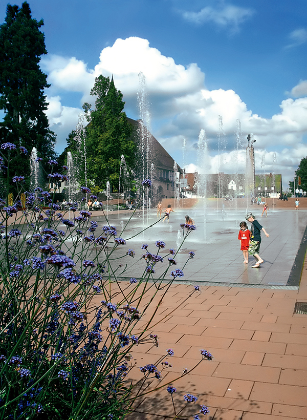 Fountains on Freudenstadt's market square.